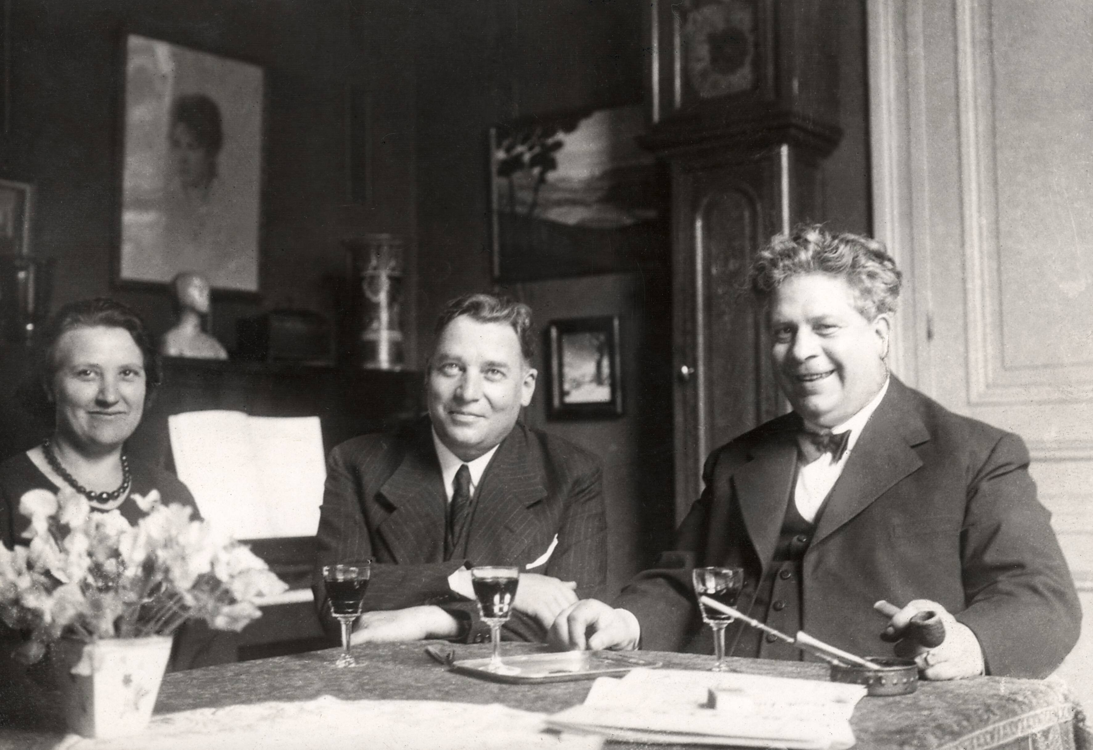 Marieke Janssens, Belgian writer Filip De Pillecyn (1891-1962) and Felix Timmermans. Lier, Belgium (1936)